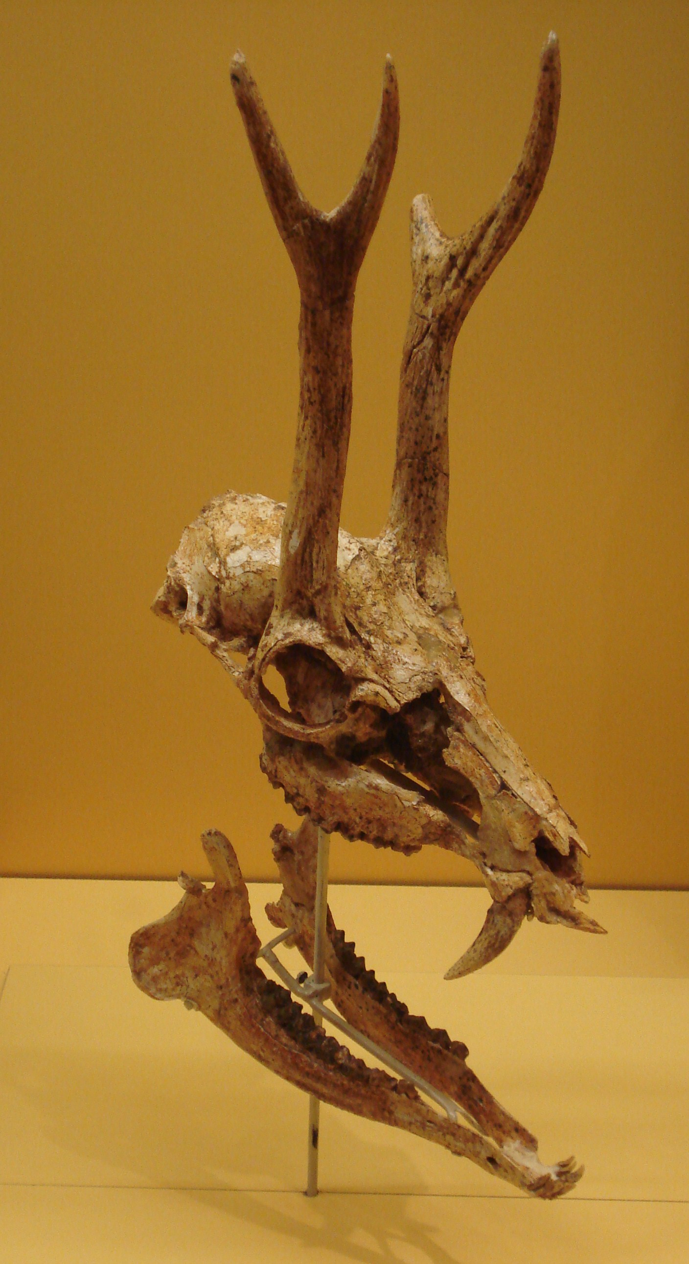 fossil of procervulus